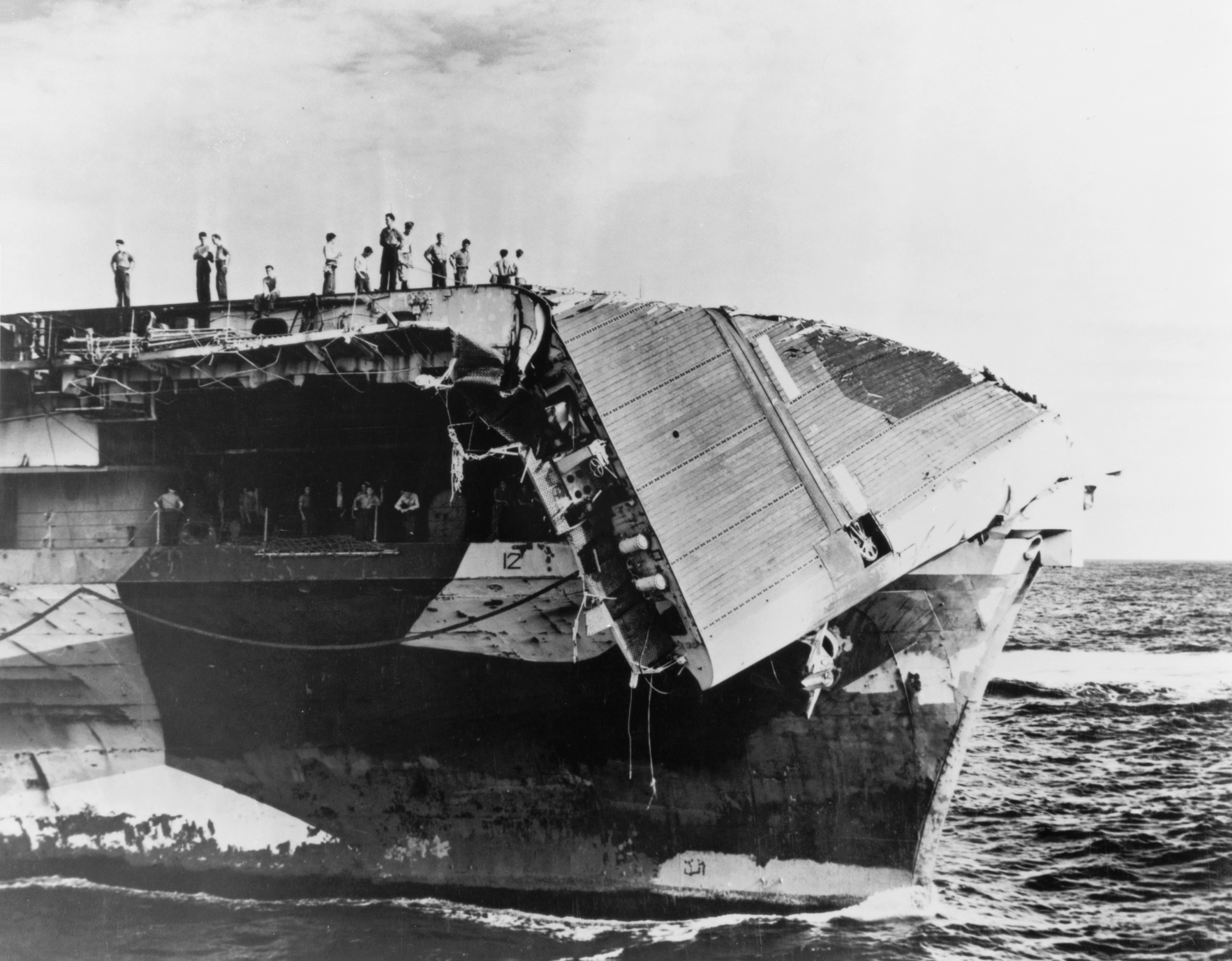 The bow of the U.S. Navy aircraft carrier USS Hornet (CV-12) showing damage received in a typhoon on 5 June 1945. The flight deck has been bent downwards over the bow and the plating torn away revealing the control position for the starboard catapult.